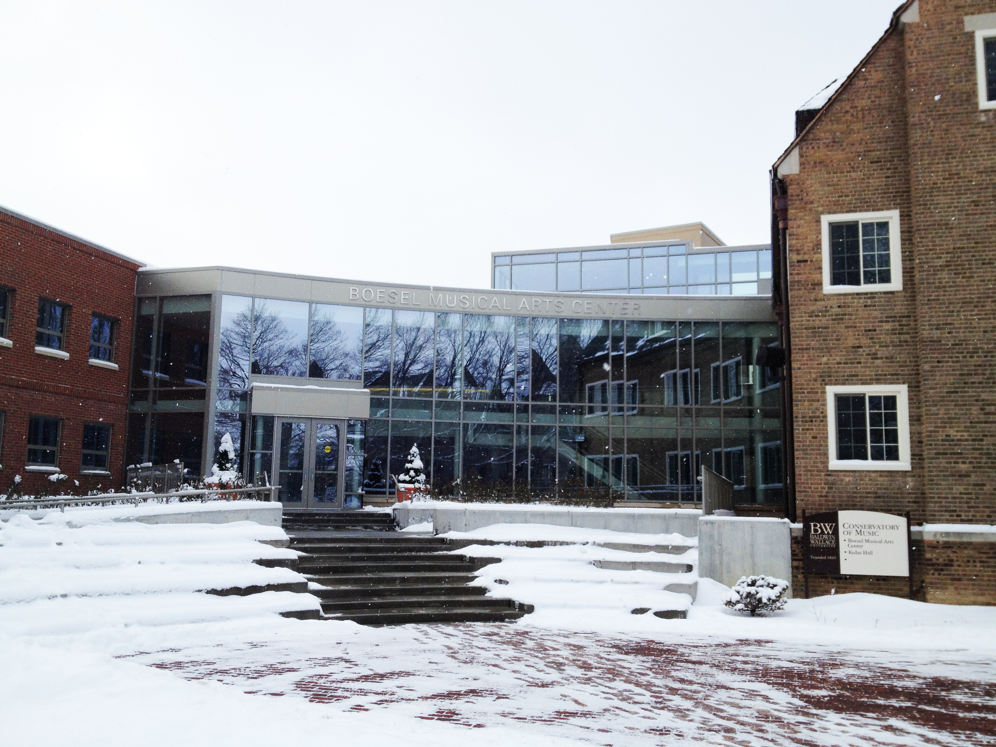 Bosel Musical Arts Center on Baldwin Wallace University South Campus